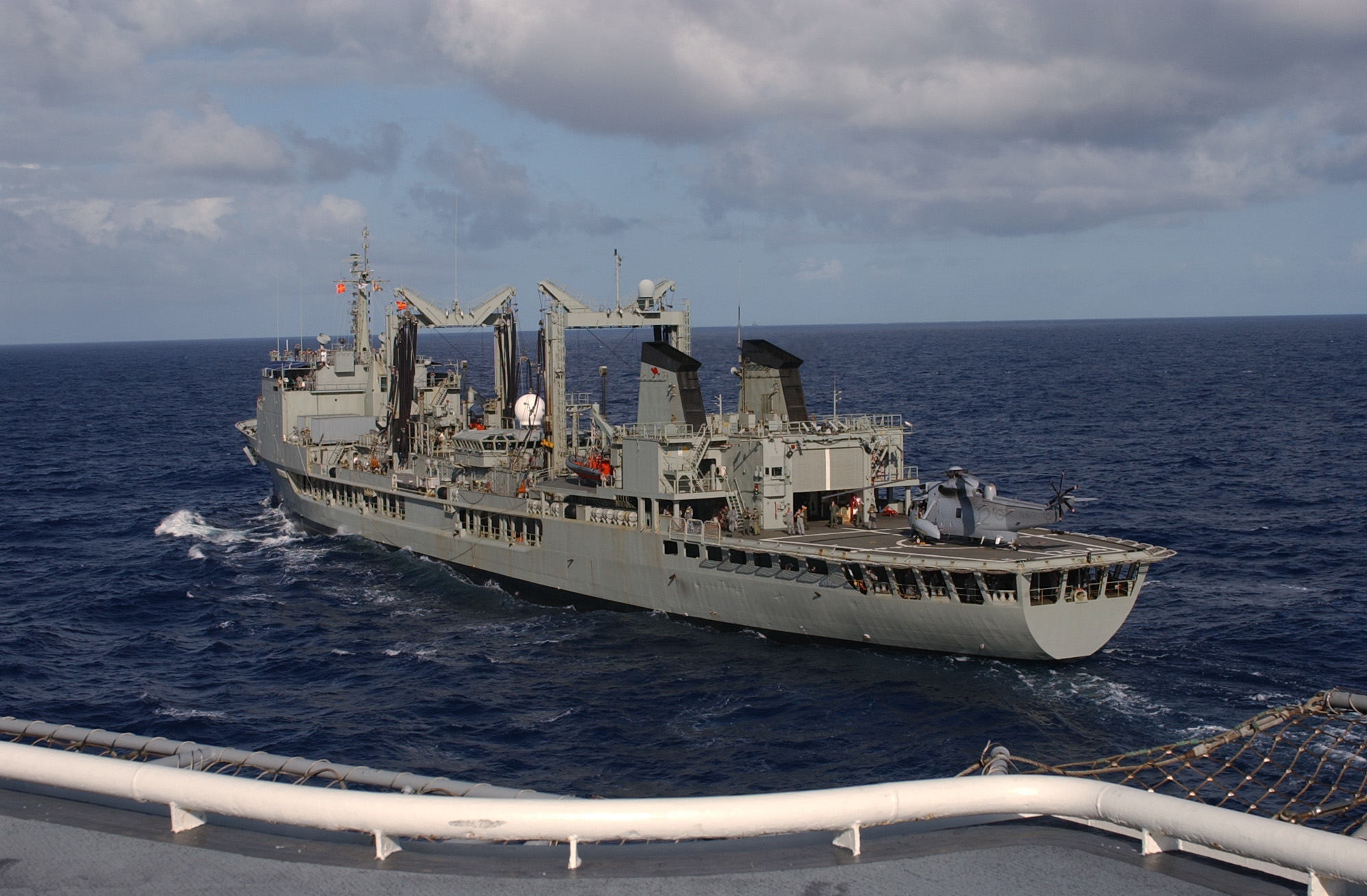 Pacific Ocean (July 11, 2004) – The amphibious assault ship USS Tarawa (LHA 1) pulls alongside the Australian auxiliary oiler replenishment ship HMAS Success (AOR 304) to prepare for a replenishment at sea (RAS) in support of exercise Rim of the Pacific (RIMPAC) 2004. RIMPAC is the largest international maritime exercise in the waters around the Hawaiian Islands. This years exercise includes seven participating nations; Australia, Canada, Chile, Japan, South Korea, the United Kingdom and the United States. RIMPAC is intended to enhance the tactical proficiency of participating units in a wide array of combined operations at sea, while enhancing stability in the Pacific Rim region. U.S. Navy photo by Photographer's Mate 1st Class Jane West (RELEASED) For more information go to: /